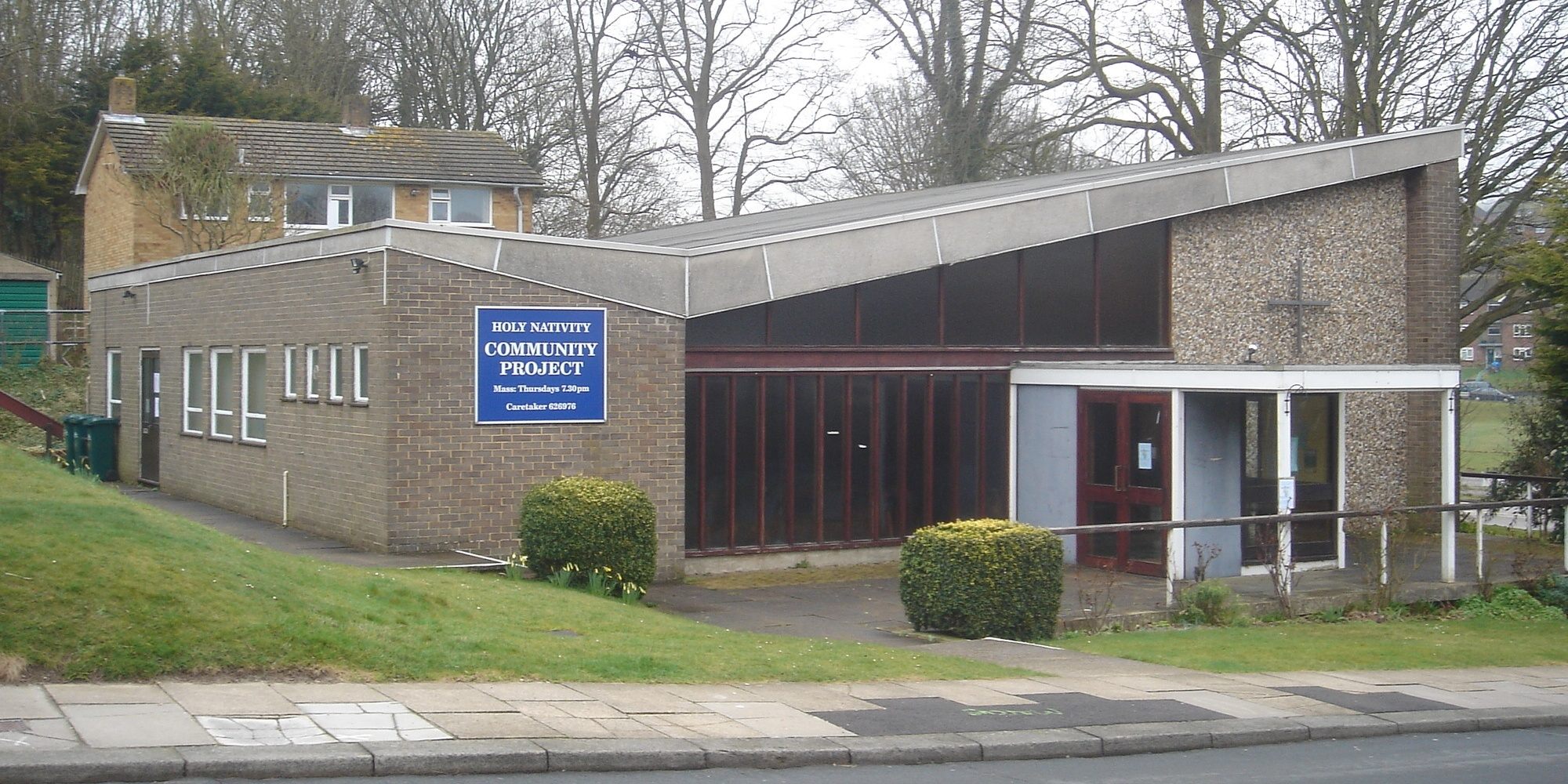 The Church of the Holy Nativity, Bevendean, City of Brighton and Hove, England. Built in 1963 to serve as the Bevendean estate's Anglican church.